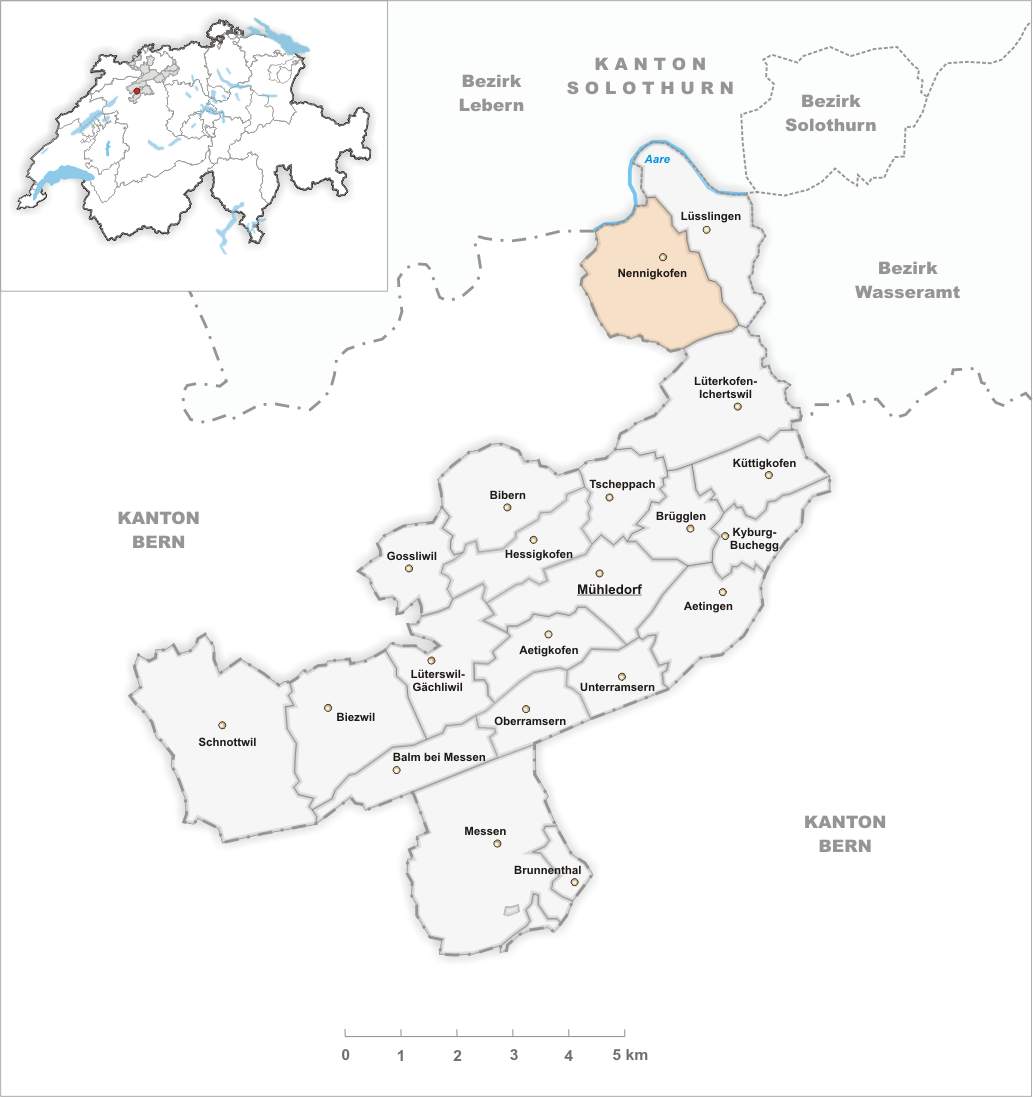 Municipality Nennigkofen